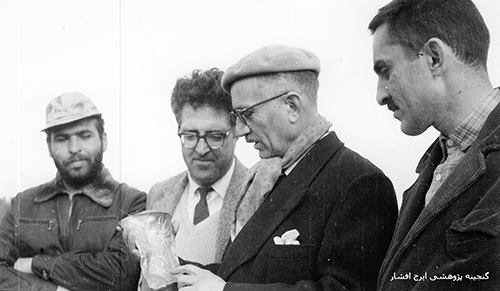 Iraj Afshar, Abbas Zaryab, and others in Marlik.